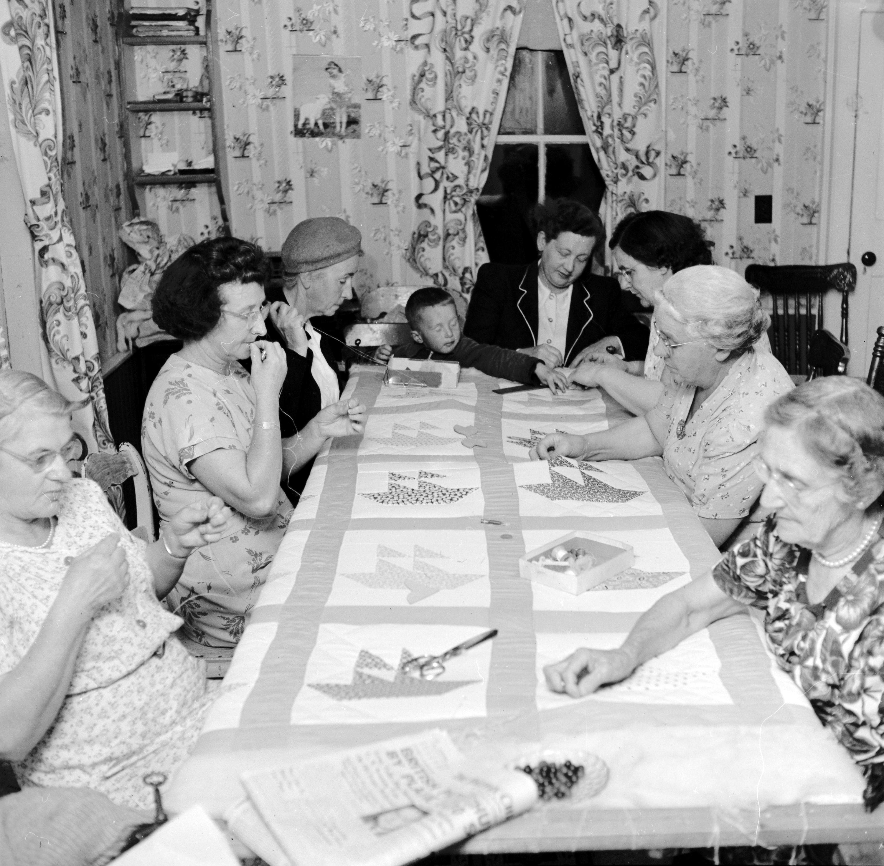 Digby County, Nova Scotia quilting bee